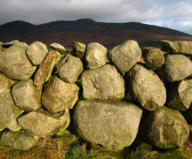 The Mourne Wall near Carrick Little. A section of the Mourne Wall near Carrick Little lit up by the sun behind me. See also 643388 I have been contacted regarding these pictures as they do not resemble the official Mourne Wall as seen in 437611, suggesting that they are, in fact, merely field boundaries. However, I am reliant on the OS data which describes this part of the wall in squares J3422 and J3323 as 'The Mourne Wall' so am describing them myself as such. Despite research I have failed to come up with a definitive history of the Mourne Wall in its entirety. The wall does appear to have been built in different sections, with some areas of a much higher standard of construction than others. The author Paddy Dillon has written an excellent book on walking in the Mournes ('The Mournes: Walks' by Paddy Dillon published by O'Brien Press, ISBN: 086278896X) and his map of the Mourne Wall walk would seem to concur that this section leading from Carrick Little carpark to Slieve Binnian is indeed rightly attributed as the 'Mourne Wall'. On the 'Mourne Wall Walk', Dillon writes the following in relation to the rise from Carrick Little to Binnian: "An obvious gravel track flanked by gorse bushes rises beside the car park. The gentle ascent leads past a couple of buildings and the boundary field walls alongside become quite substantial. Cross a stone step stile beside an iron gate. The Mourne Wall rises to the left, offering a direct line to the summit of Slieve Binnian." My pictures have been taken of the wall running directly up to Binnian just past the stone stile. Dillon also offers the following brief notes on the wall itself: "The course of the Mourne Wall on either side of the Silent Valley is disappointing, and in places it seems to be a haphazard construction. The truly 'classic' proportions of the wall are found northwards of Carn Mountain and Long Seefin, and there are some particularly stout sections on Slieve Corragh and the Bog of Donard."